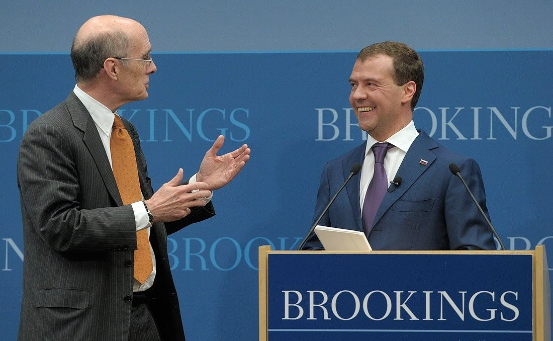 With President of the Brookings Institution Strobe Talbott at a meeting with representatives of US public, academic and political circles.